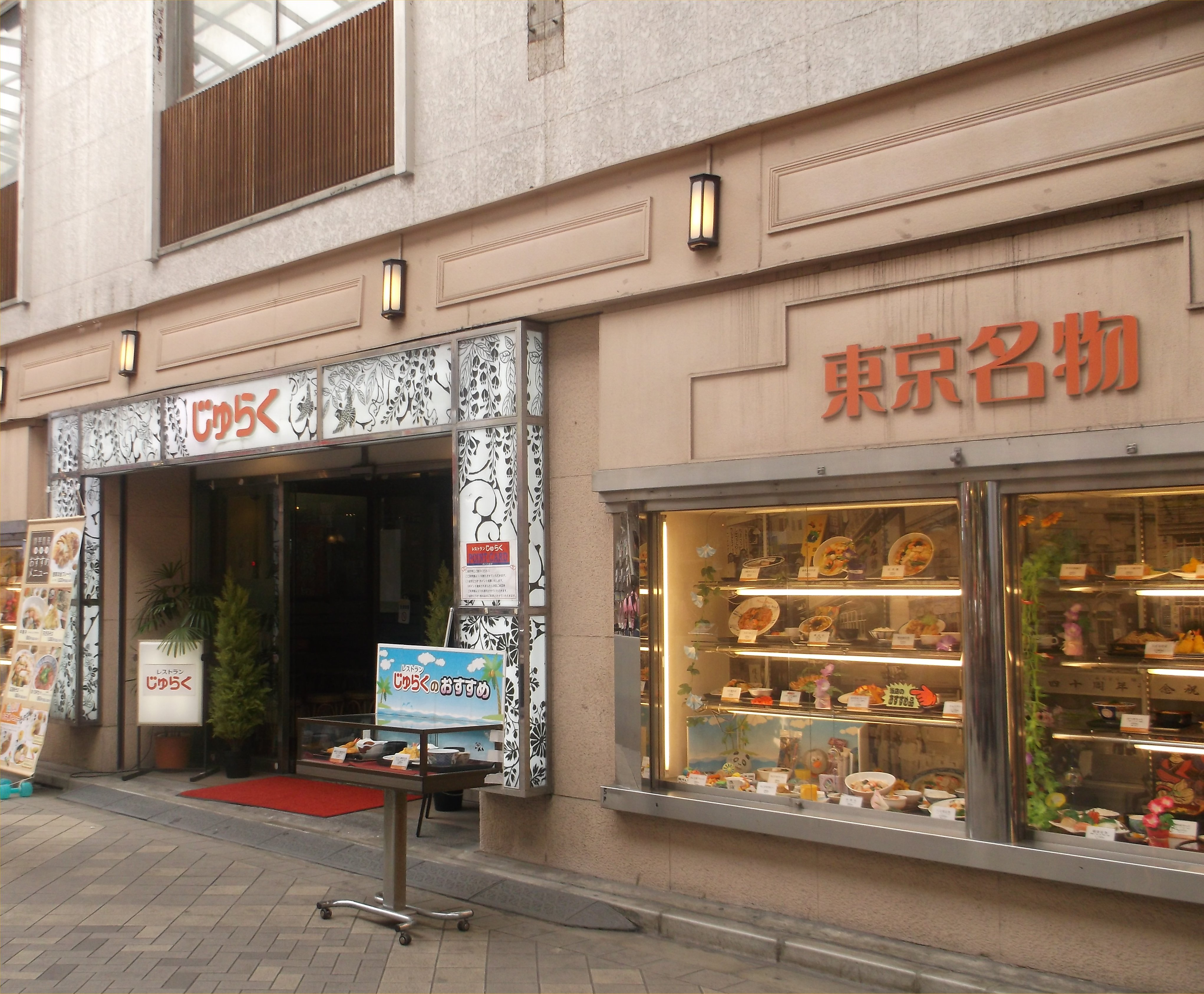 A photo of "Asakusa Juraku"(a family restaurant in Asakusa,Tokyo.)Asakusa,Taito-ku,Tokyo,Japan.